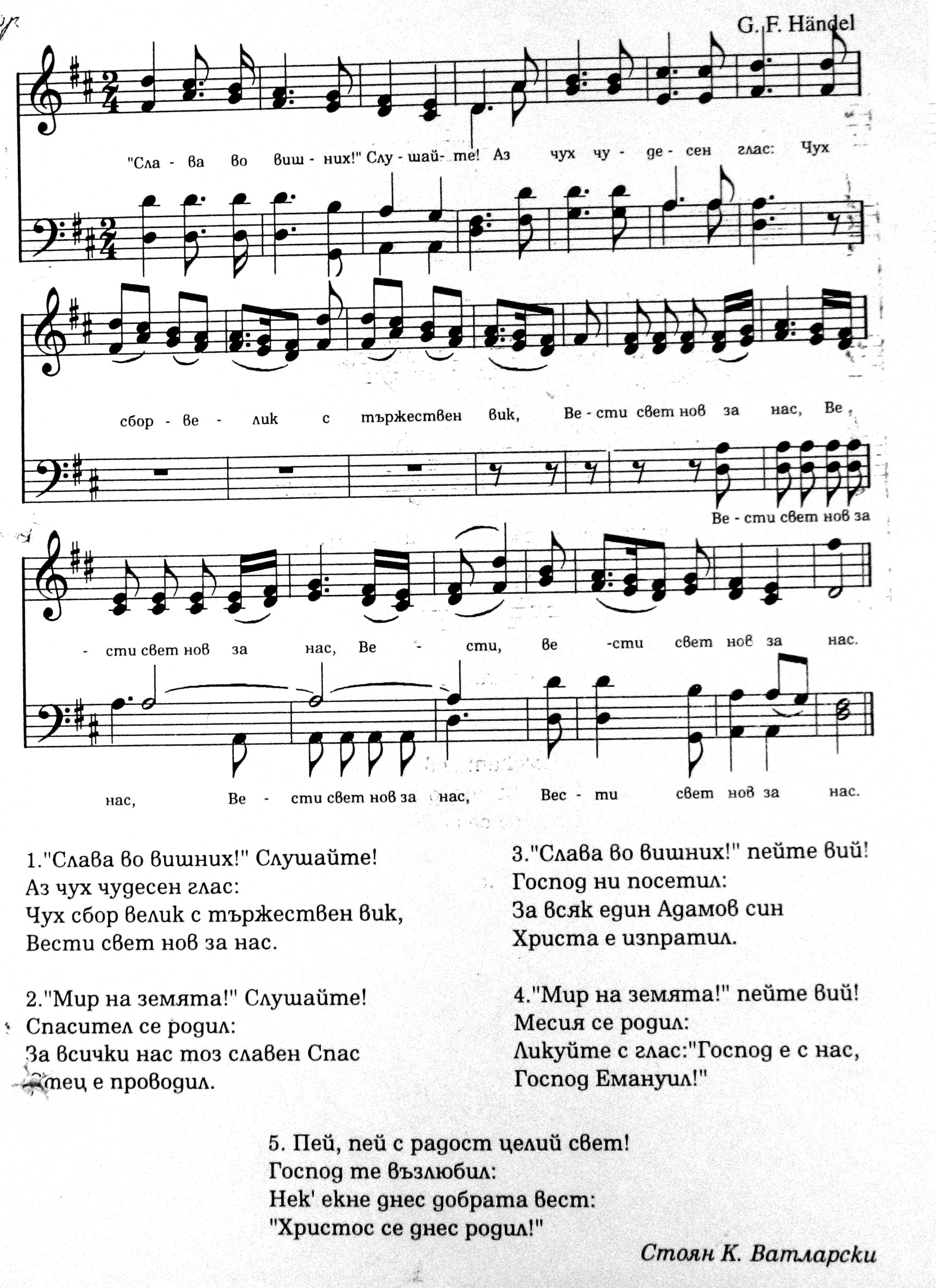 Bulgarian lyrics and notation for the Christmas Song "Joy to the World"